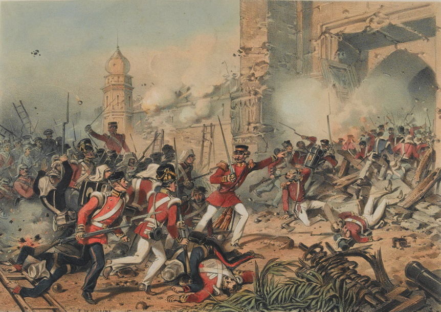 Capture of Delhi, 1857. Coloured lithograph by Bequet Freres after R de Moraine, published by E Morier, Paris, 1858 (c). By 14 September 1857 the British had about 9,000 men before the rebel-held city of Delhi. A third were British while the rest were Sikhs, Punjabis and Gurkhas. The assault began when artillery breached the city walls and sappers blew in the Kashmir Gate. It took a week of vicious street fighting before Delhi was finally taken. The British and their Indian allies then ransacked the city in an orgy of looting and killing. The capture of Delhi was key to the suppression of the Indian Mutiny (1857-1859). NAM Accession Number NAM. 1971-02-33-139-1 Copyright/Ownership National Army Museum Copyright Location National Army Museum, Study collection Object URL